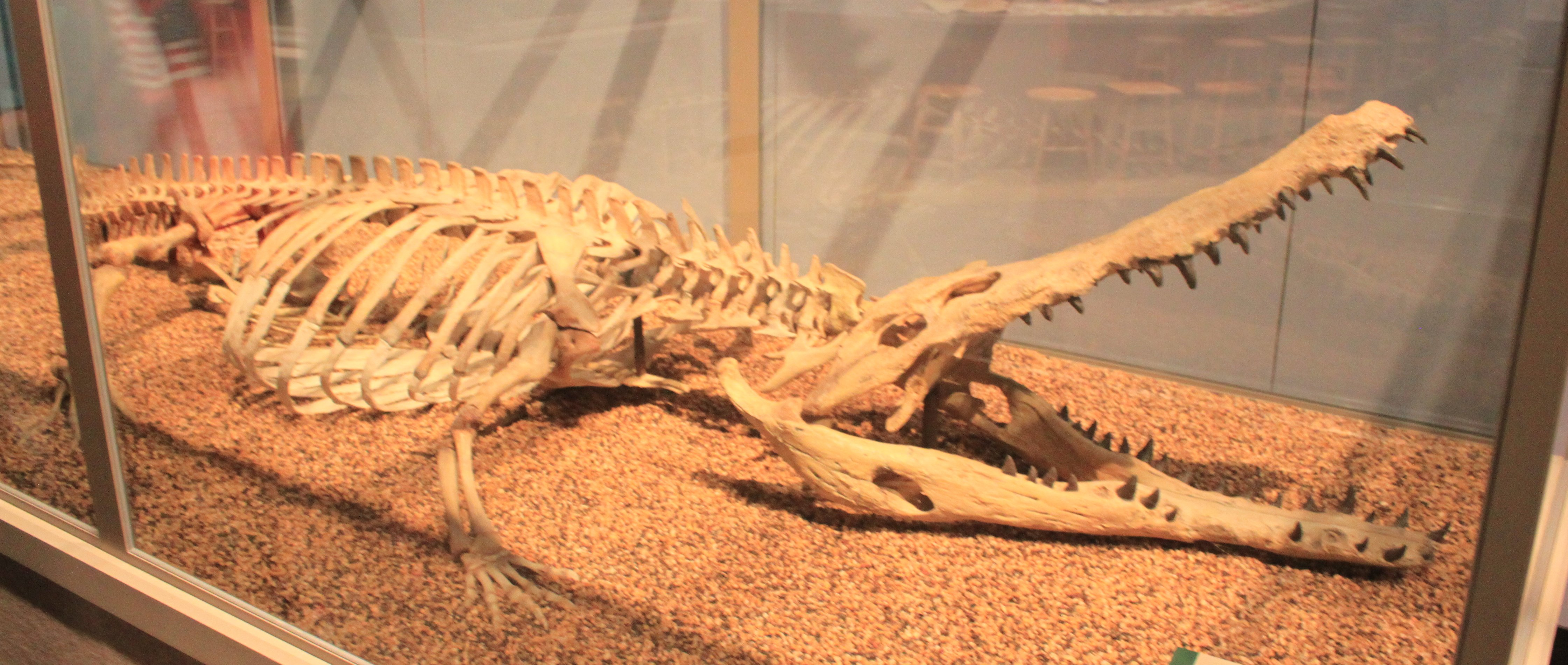 crop of file in file name